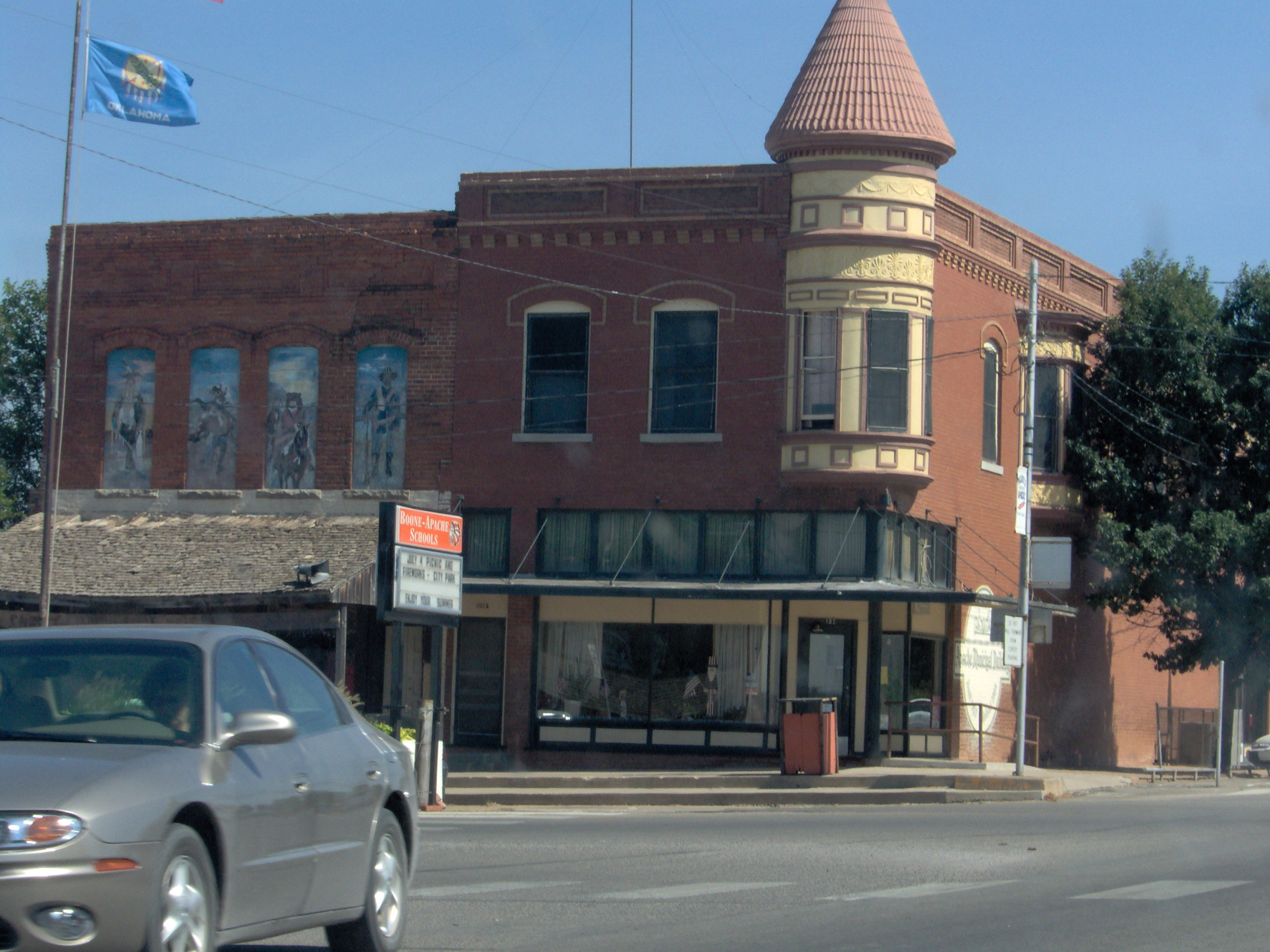 Front of the former Amphlett Brothers Drug and Jewelry Store, now the present day city hall — located at the intersection of Evans Avenue and U.S. Route 62/Coblake Avenue, in Apache, Caddo County, Oklahoma. Built in 1902, it is listed on the National Register of Historic Places in Caddo County, Oklahoma.